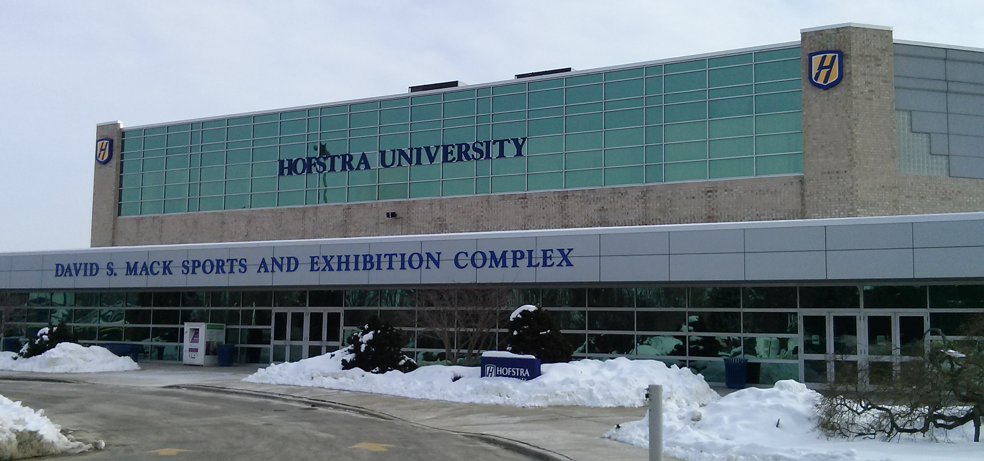 The exterior of the David S Mack Sports and Exhibition Complex, the home arena for Hofstra University's men's and women's basketball teams.